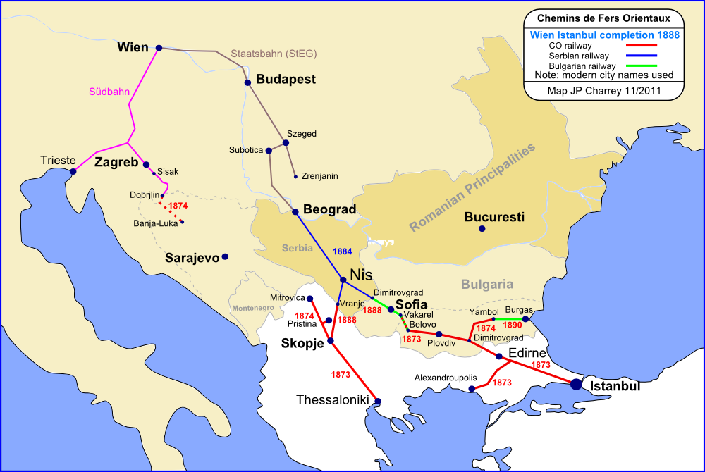 Chemins de fer Orientaux in 1888 showing the completion Istanbul to Vienna and the various branches.